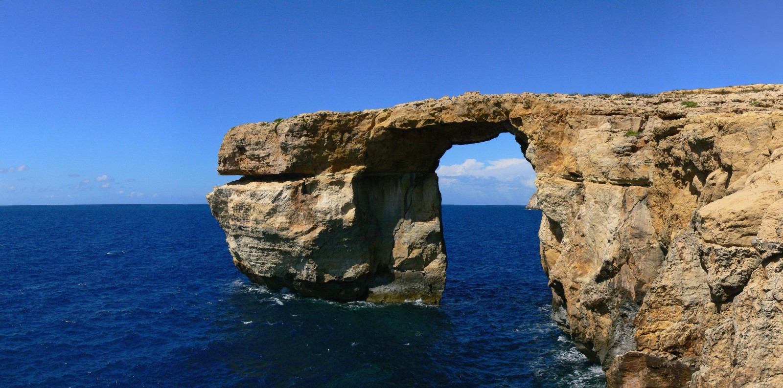 The Azure Window at Dwejra (San Lawrenz, Gozo)